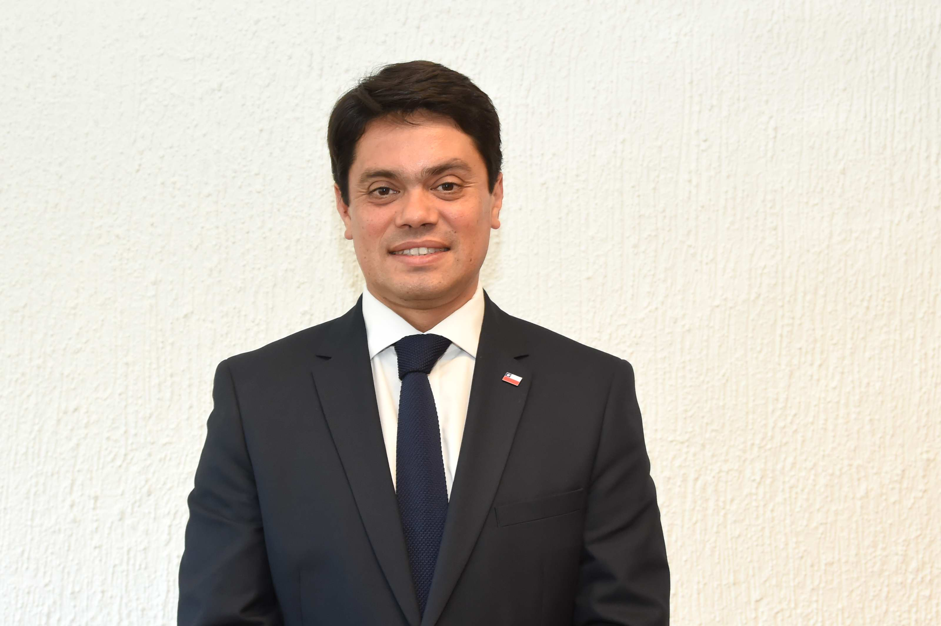 Official portrait of Jorge Poblete Aedo as Undersecretary of Education of Chile